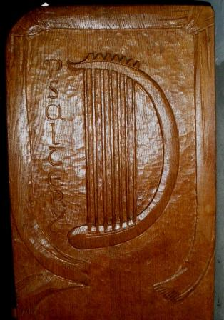 Alan Durst carving on choir stall in Northwood Church